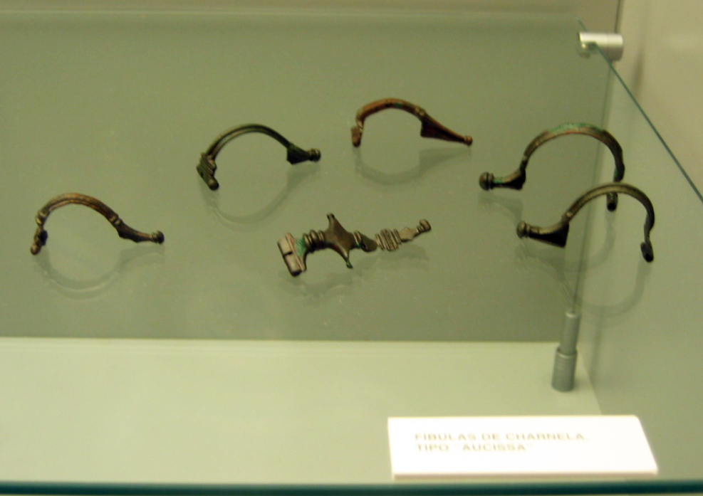 Ancient roman Aucissa type fibulas of the Archaeological Museum of Palencia (Castile and León).